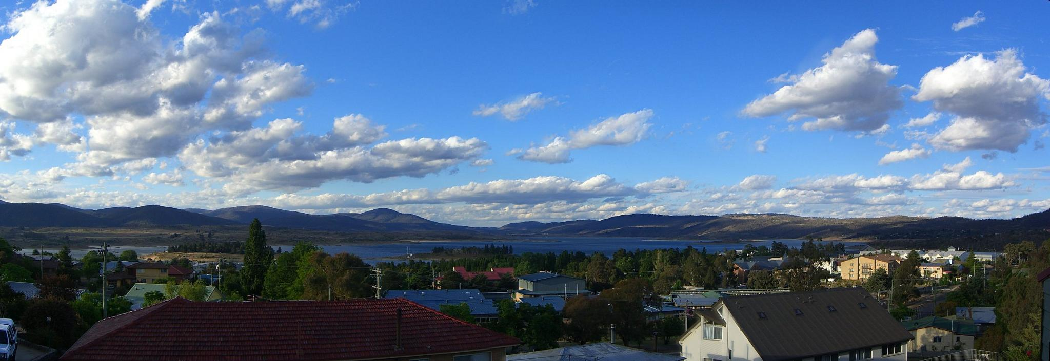 Lake Jindabyne from apartment panorama. Image was stitched with Autostitch